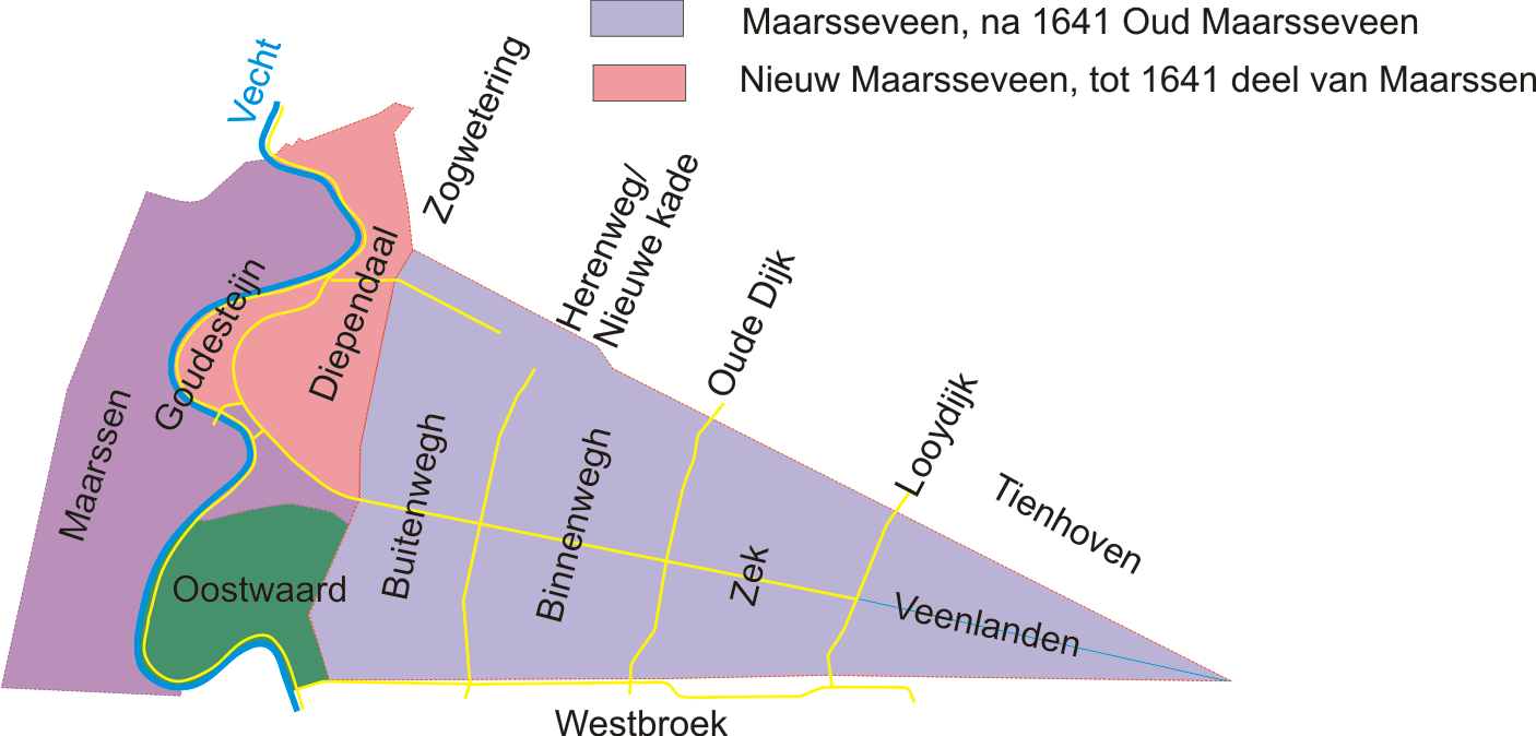 map of the former lordship of Maarsseveen in the province of Utrecht